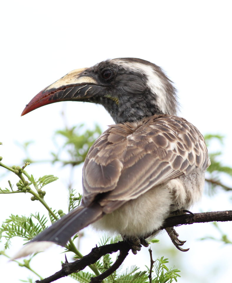 African grey hornbill, Tockus nasutus - female - at Pilanesberg National Park, Northwest Province, South Africa